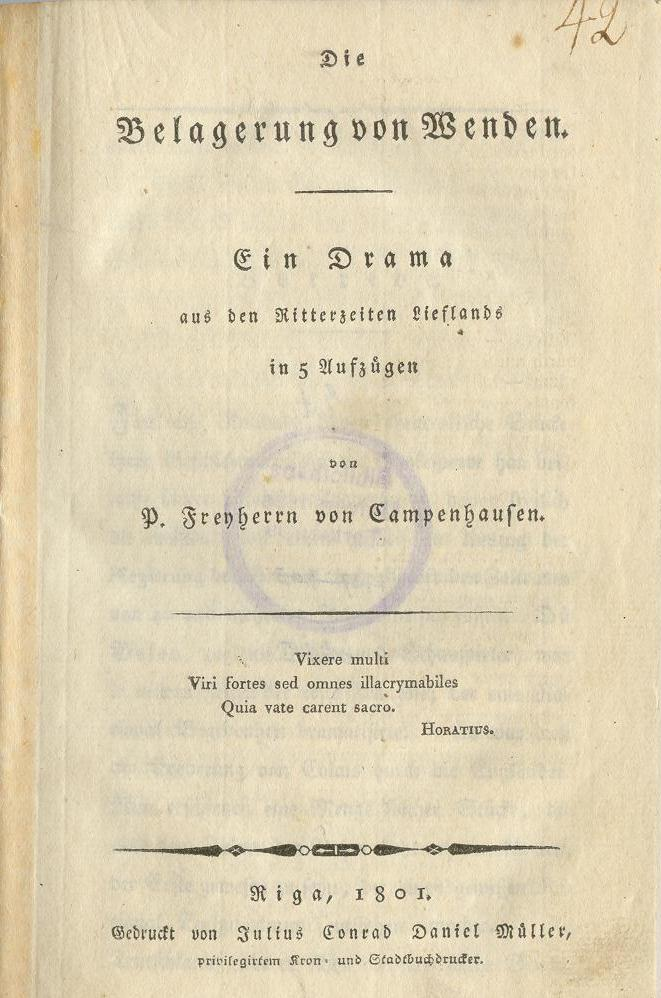 Title page of the drama "Die Belagerung von Wenden" by Leyon Pierce Balthasar von Campenhausen